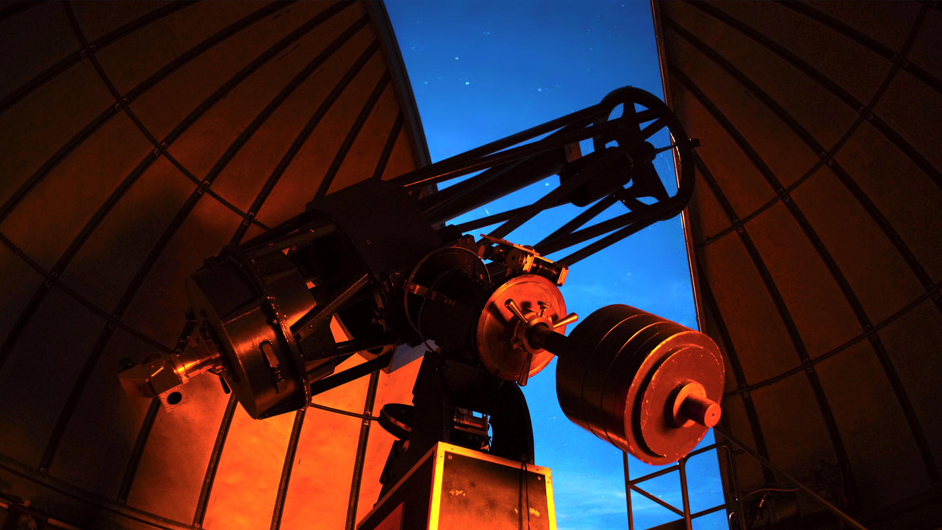 This image depicts the Goldendale Observatory 24.5" Classical-Cassegrain Telescope as it appeared in 2014.